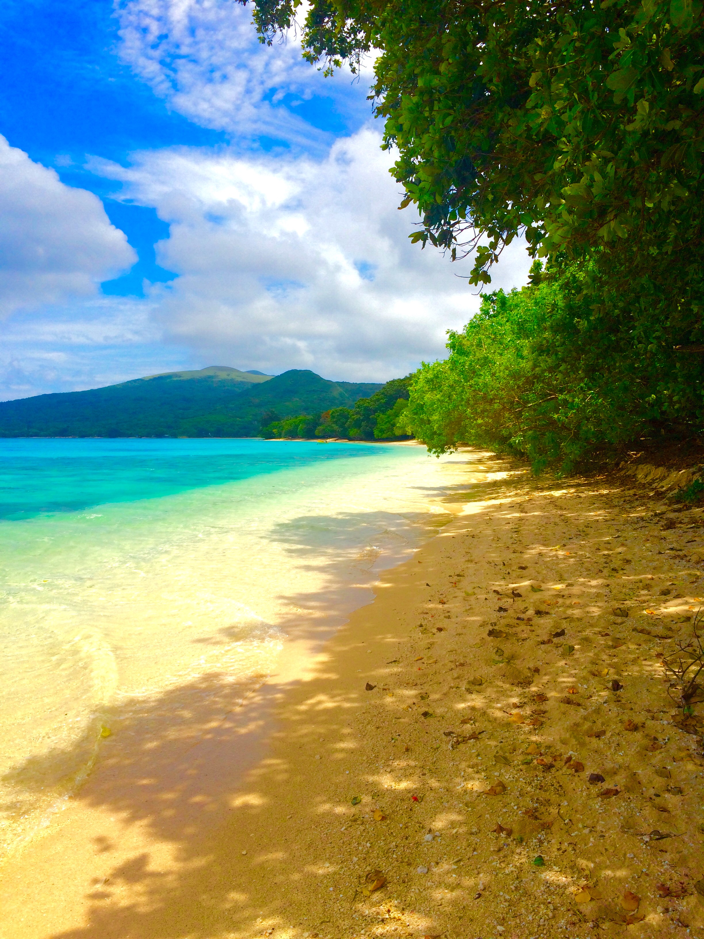 On the beach in the village of Worearu on Pélé Island in Vanuatu, with Nguna Island in the far back.